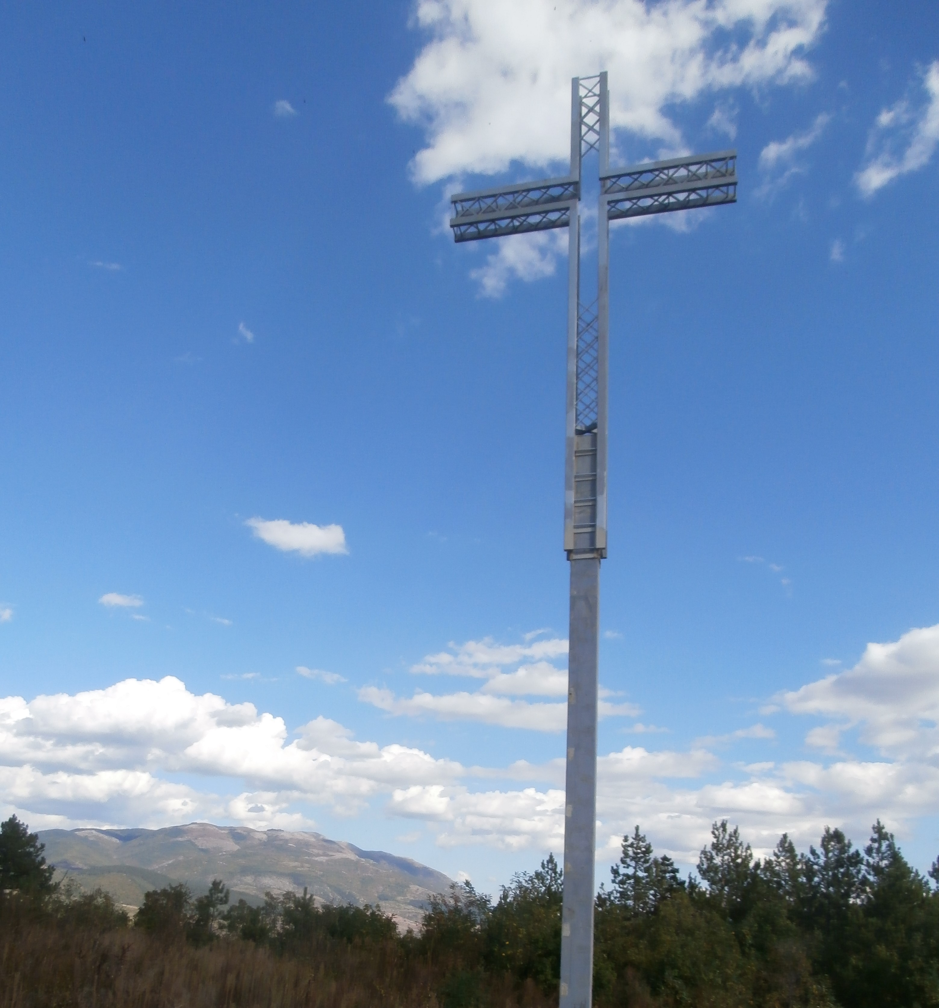 The Cross of the Spasovica